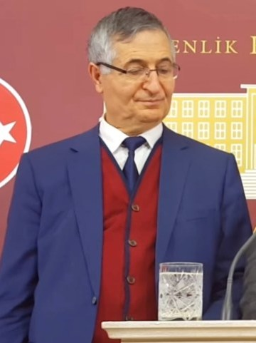 Nationalist Movement Party politicians Özcan Yeniçeri, Ümit Özdağ and Yusuf Halaçoğlu (left to right)